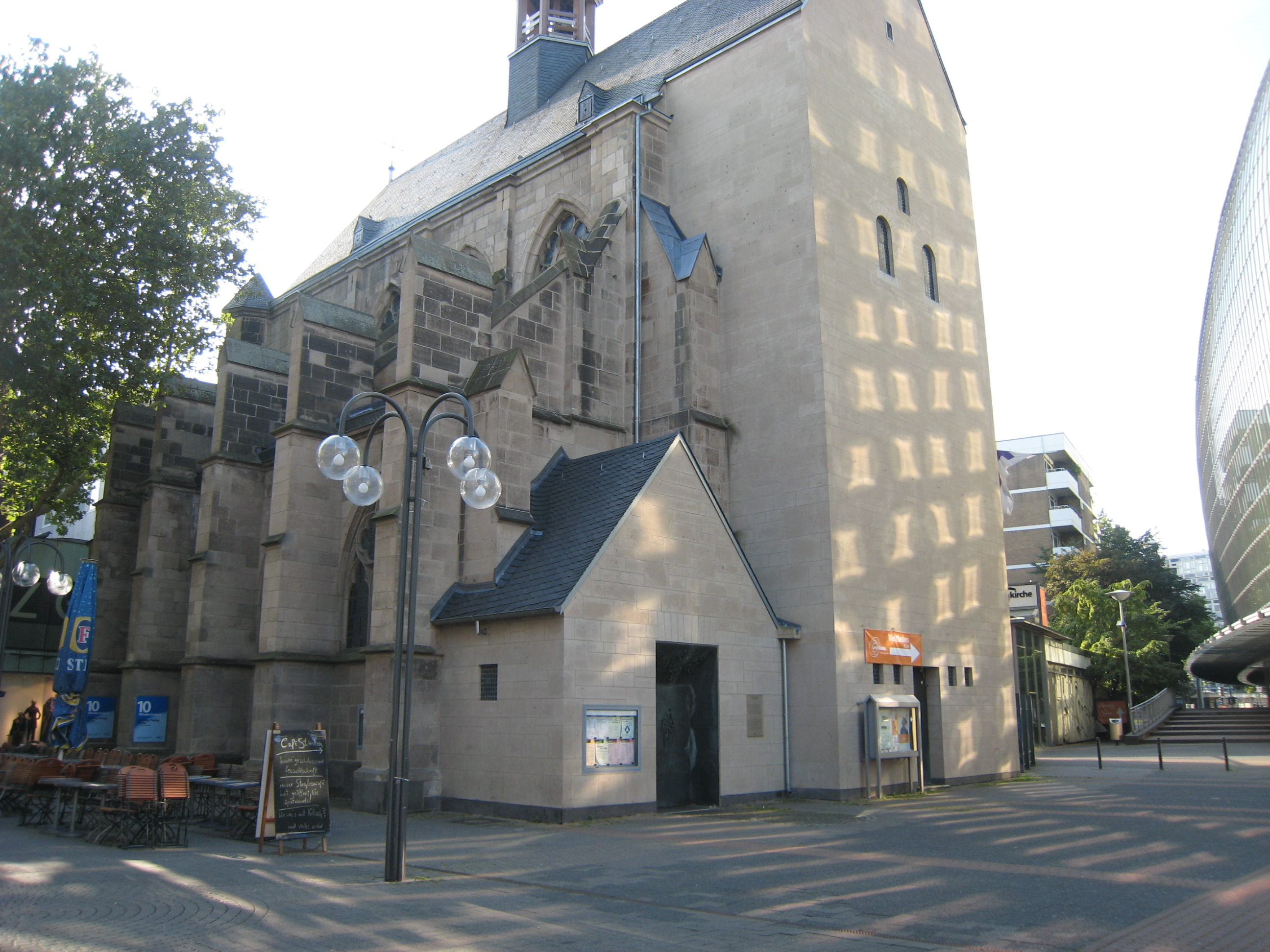 The Antoniterkirche (Antoniter church) in Cologne (Germany)